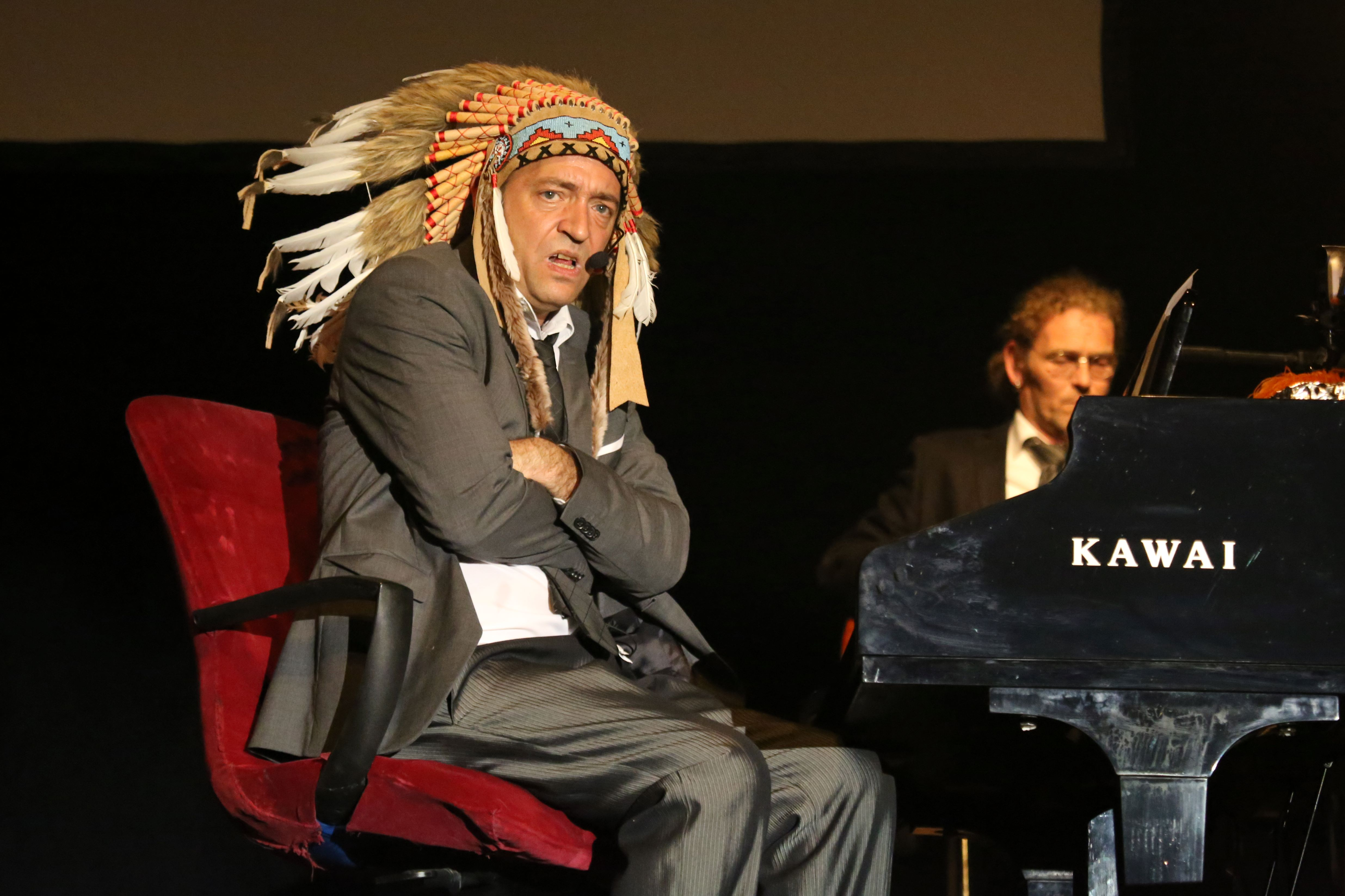 Rainald Grebe at the ZMF 2014 in Freiburg, Germany